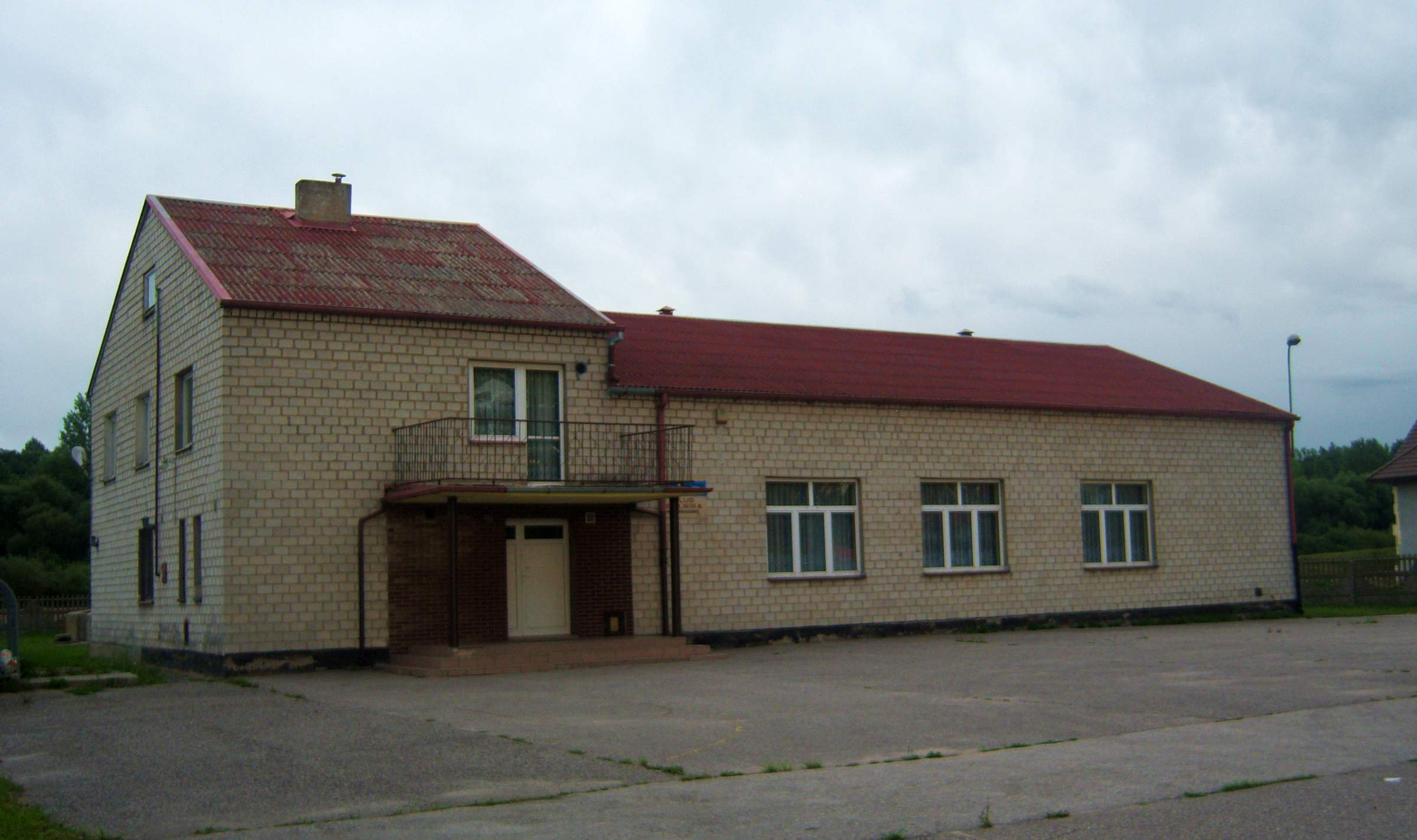 Day room in Nieświastów